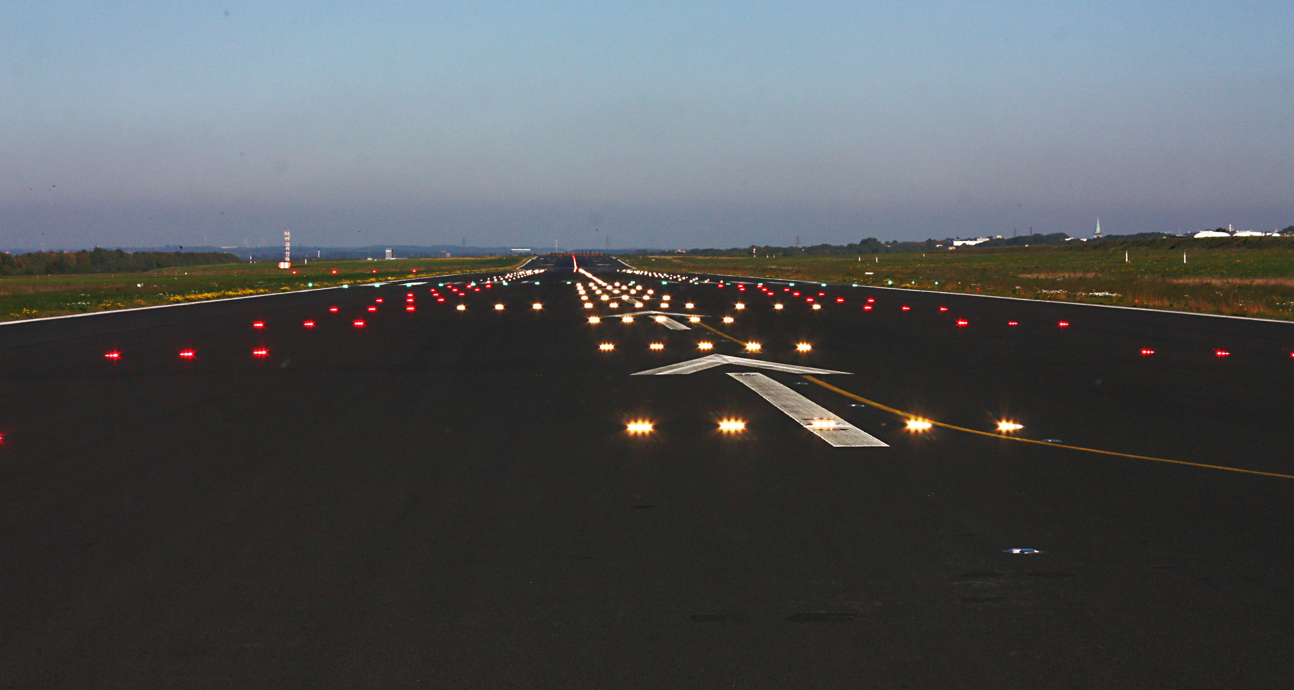 Runway 06/24 in Dortmund airport